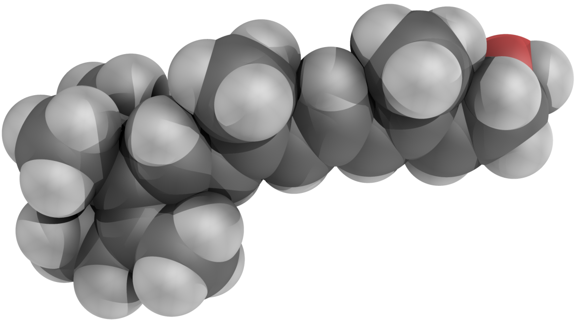 Retinol or Vitamin A 3D space model (balls model).